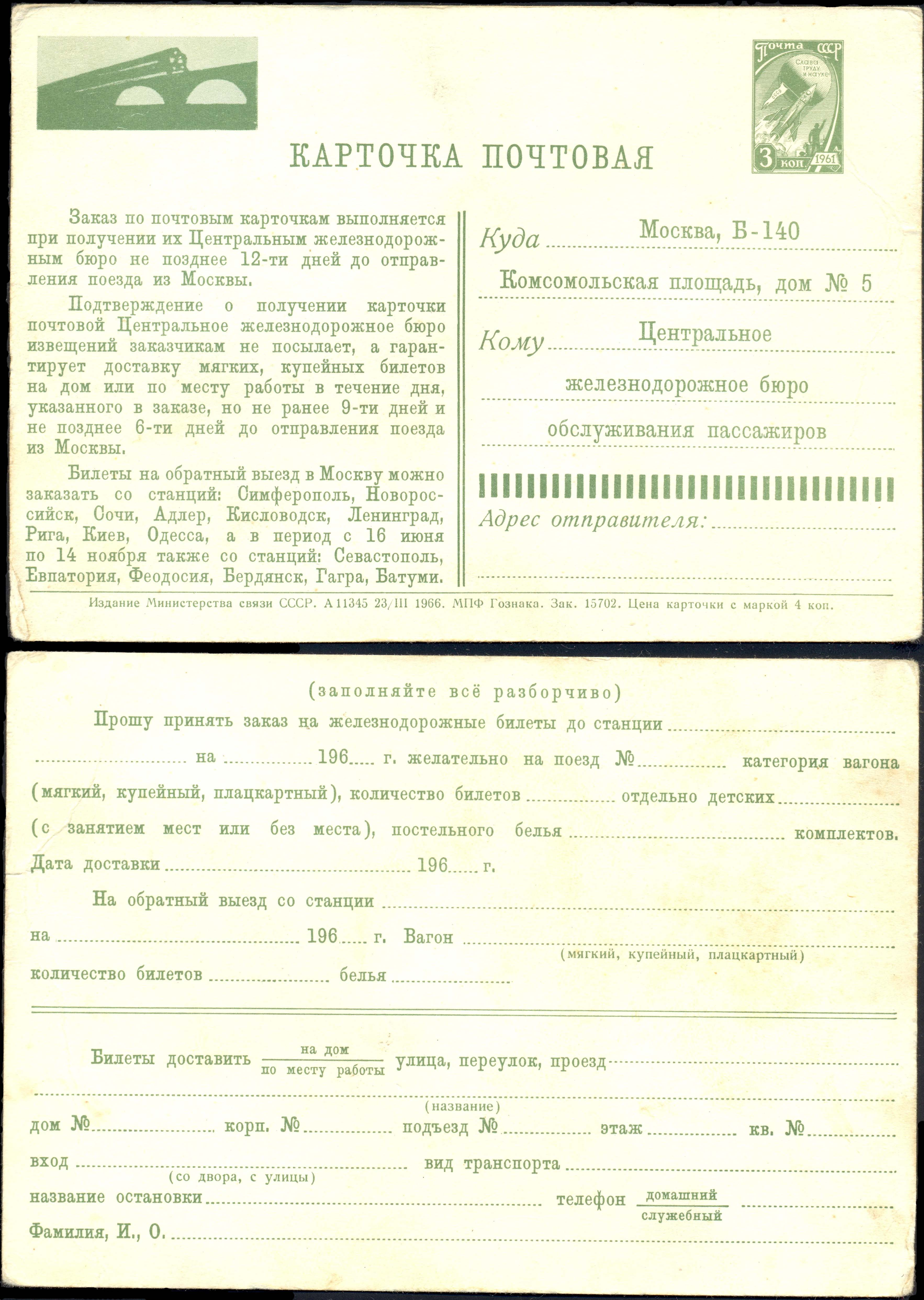 1966 Official postal card, for ordering USSR railway tickets.